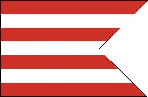 Flag of the town